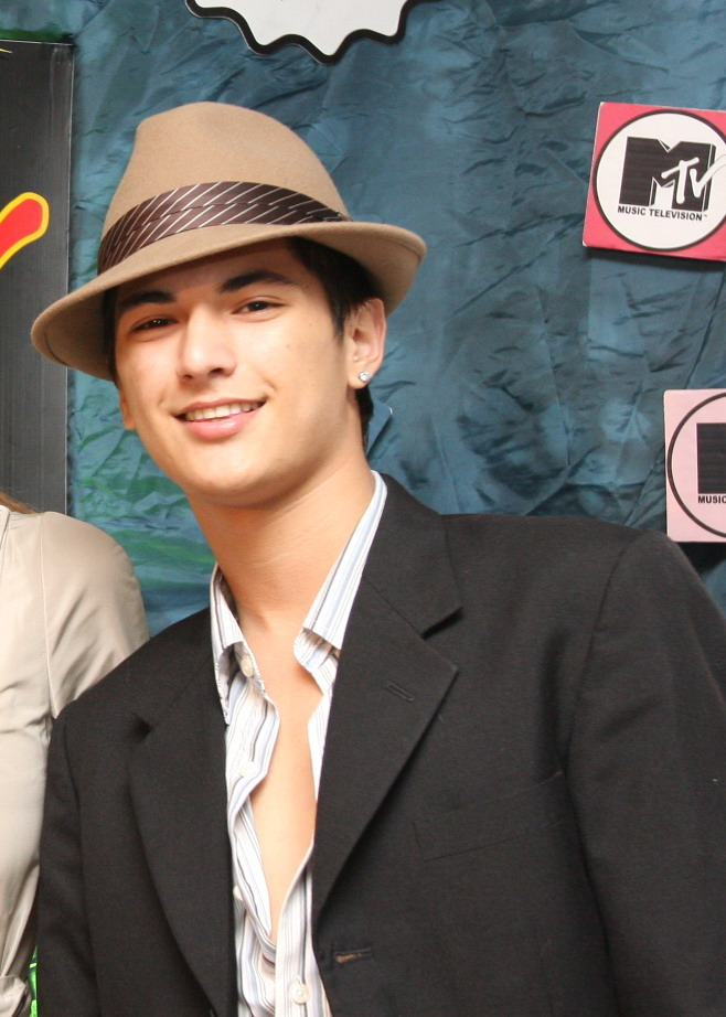 Chin chinvut at MTV 6th Anniversary Party